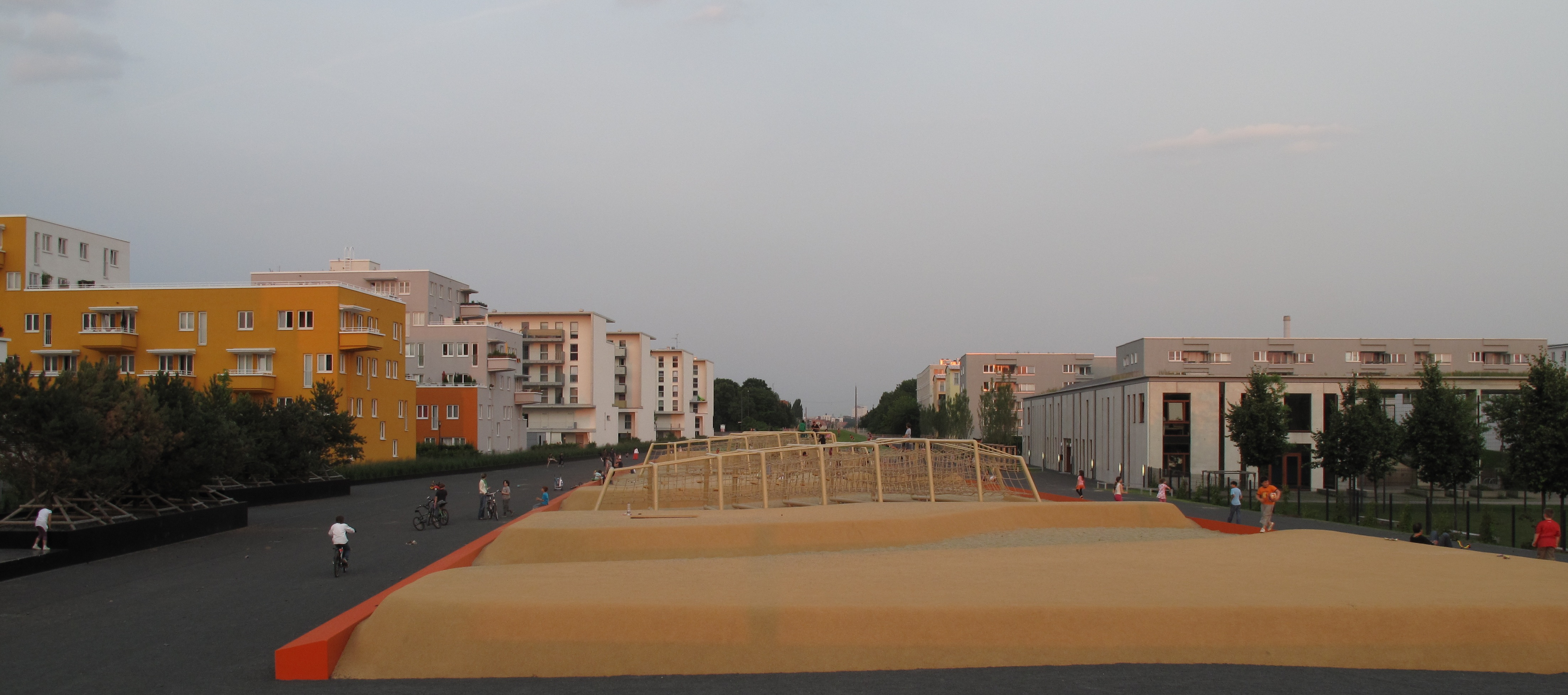 The Quartiersplatz Theresienhöhe in Munich's district Schwanthalerhöhe.